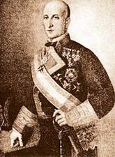 Portrait of Jose Manuel Pareja (1813-1865), senior Spanish naval officer.